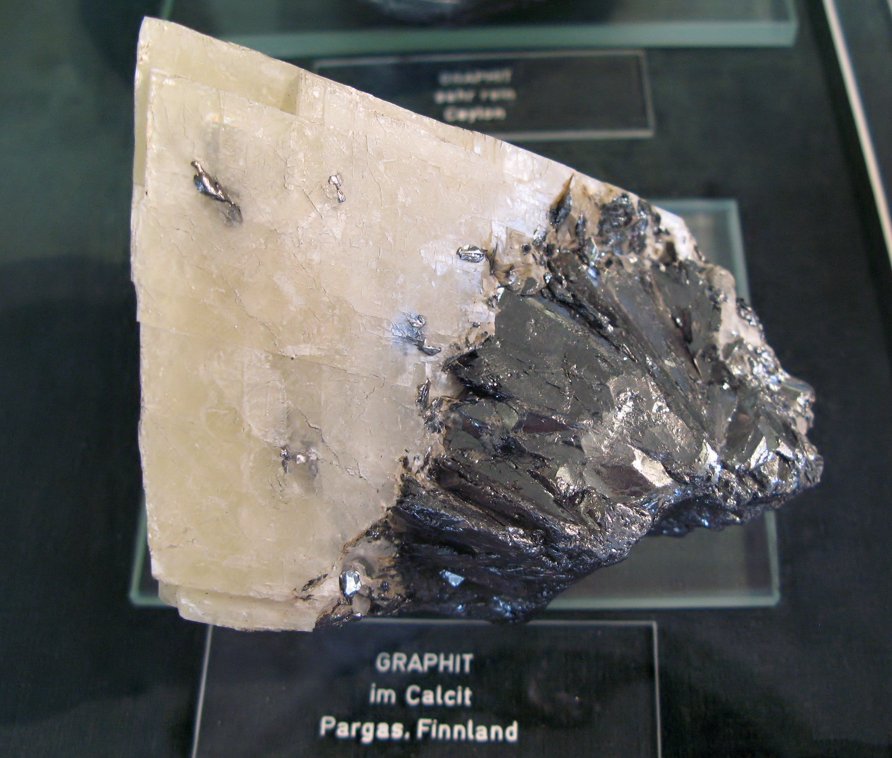 Graphite in Calcite - Locality: Pargas, Finnland - Exposed in the Mineralogical Museum, Bonn, Germany